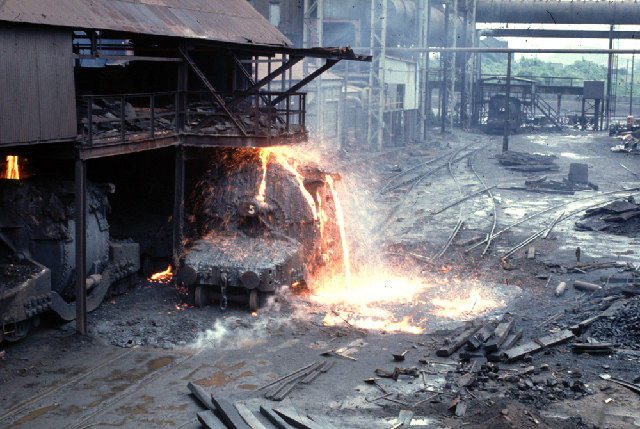 Molten Steel Spill. Steelmaking in Scunthorpe